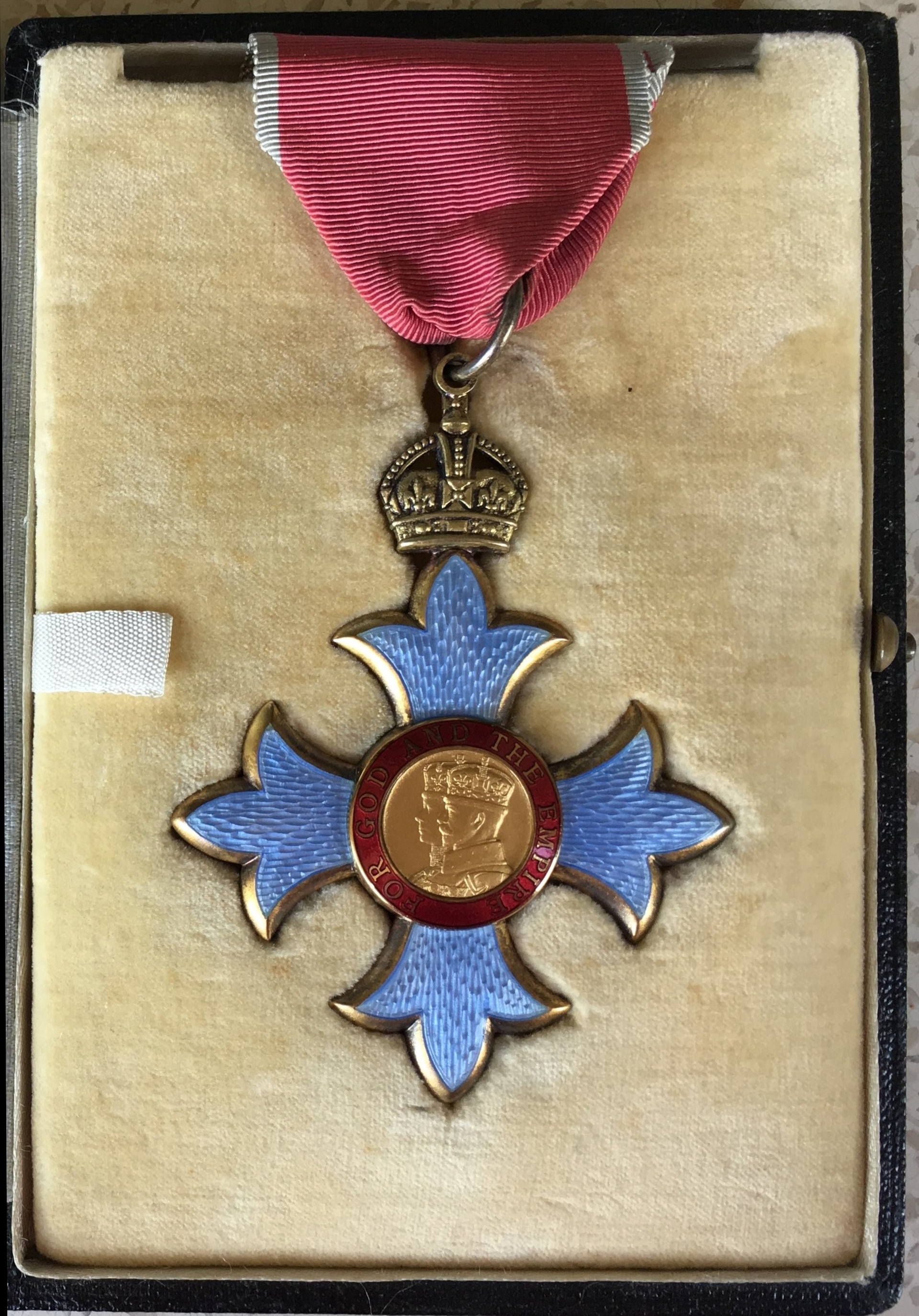 Commander of the Order of the British Empire, United Kingdom. Type II, Civil division. Private Collection.